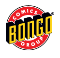 The Bongo Comics logo before it was changed in 2012.